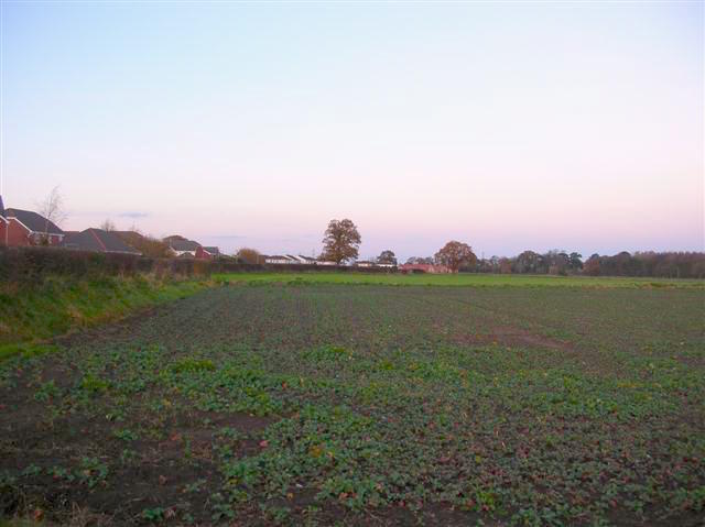 Battle Flat, Stamford Bridge, East Riding of Yorkshire, England.Here on 25th September 1066, Harold Godwinson claimed victory for the English over Harald Hardrade and the viking invaders at the Battle of Stamford Bridge.